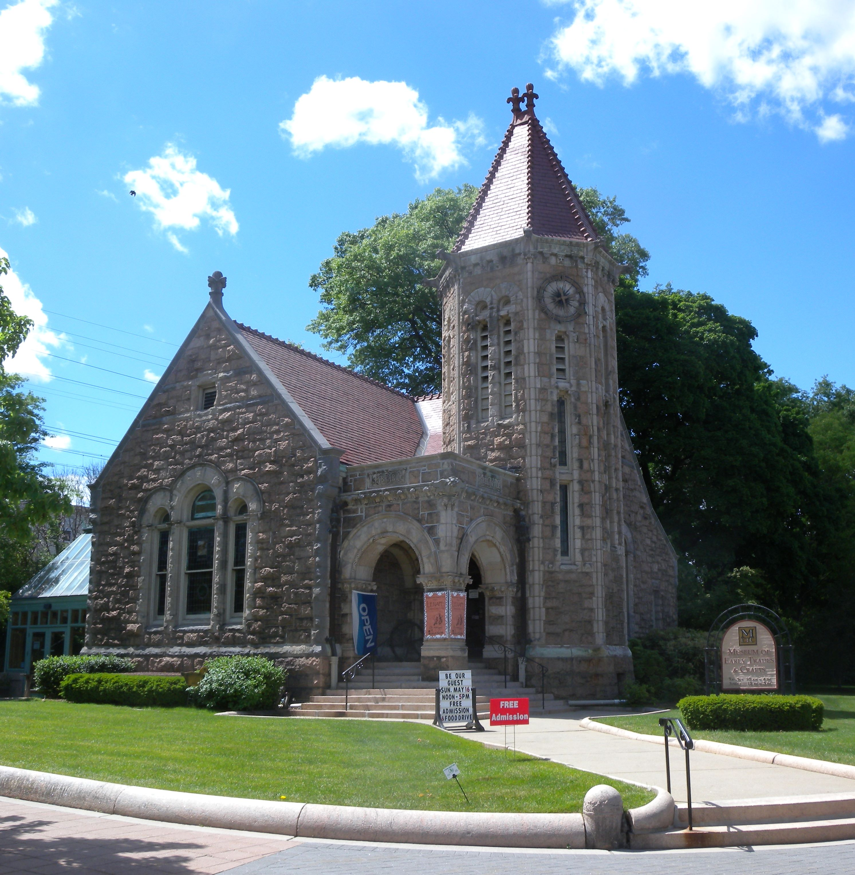 Looking west at Museum of Early Trades and Crafts on a sunny midday.